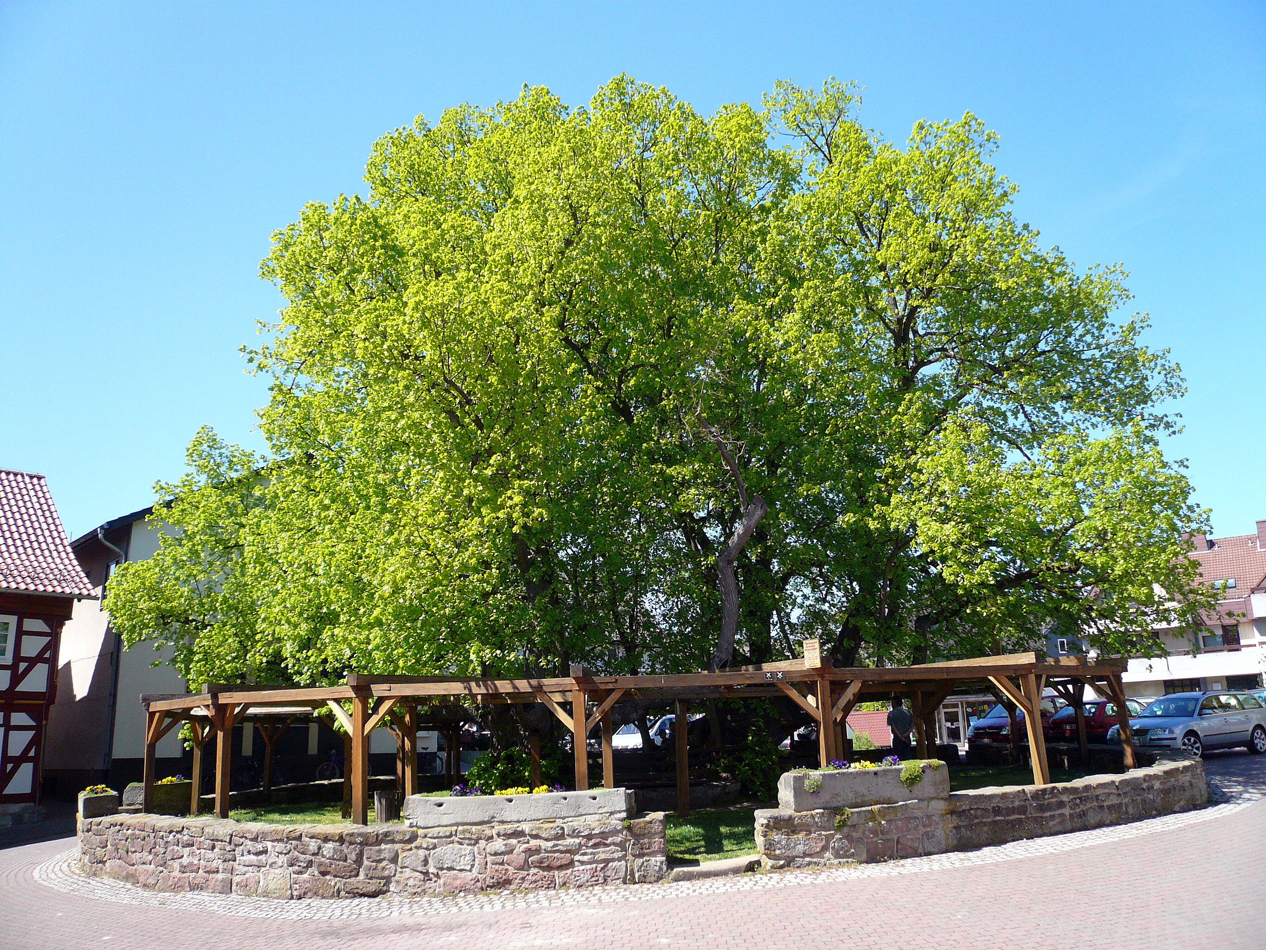 The lime tree (Tilia platyphyllos), around 1200 years old, it is known as the oldest tree in Germany. It is growing in the municipality of Schenklengsfeld, near Bad Hersfeld